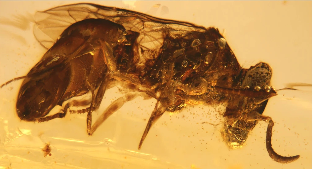 Microphotograph of the Prosphex anthophilos holotype in Burmese amber.